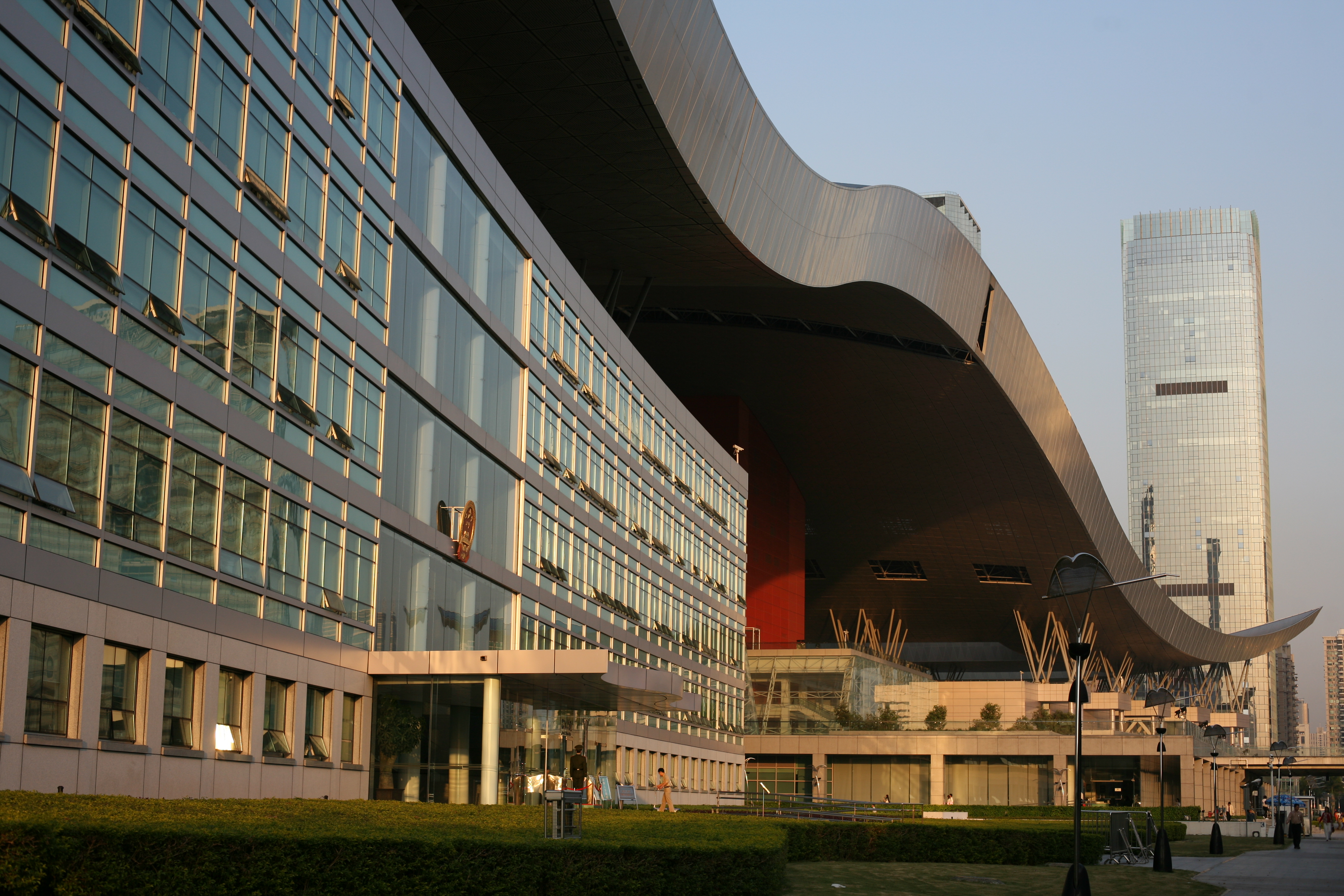 Civic Center, Shenzhen